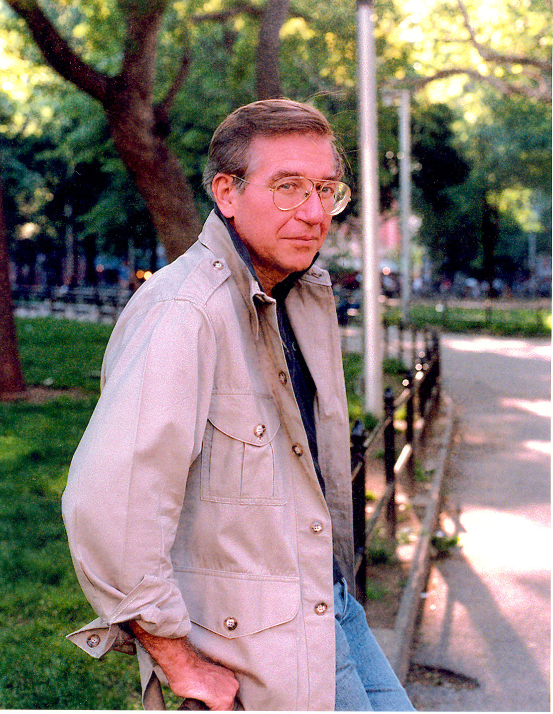 Former New York Times senior foreign correspondent John Kifner in New York City's Washington Square Park. May 22,1994 photograph by Nancy Wong